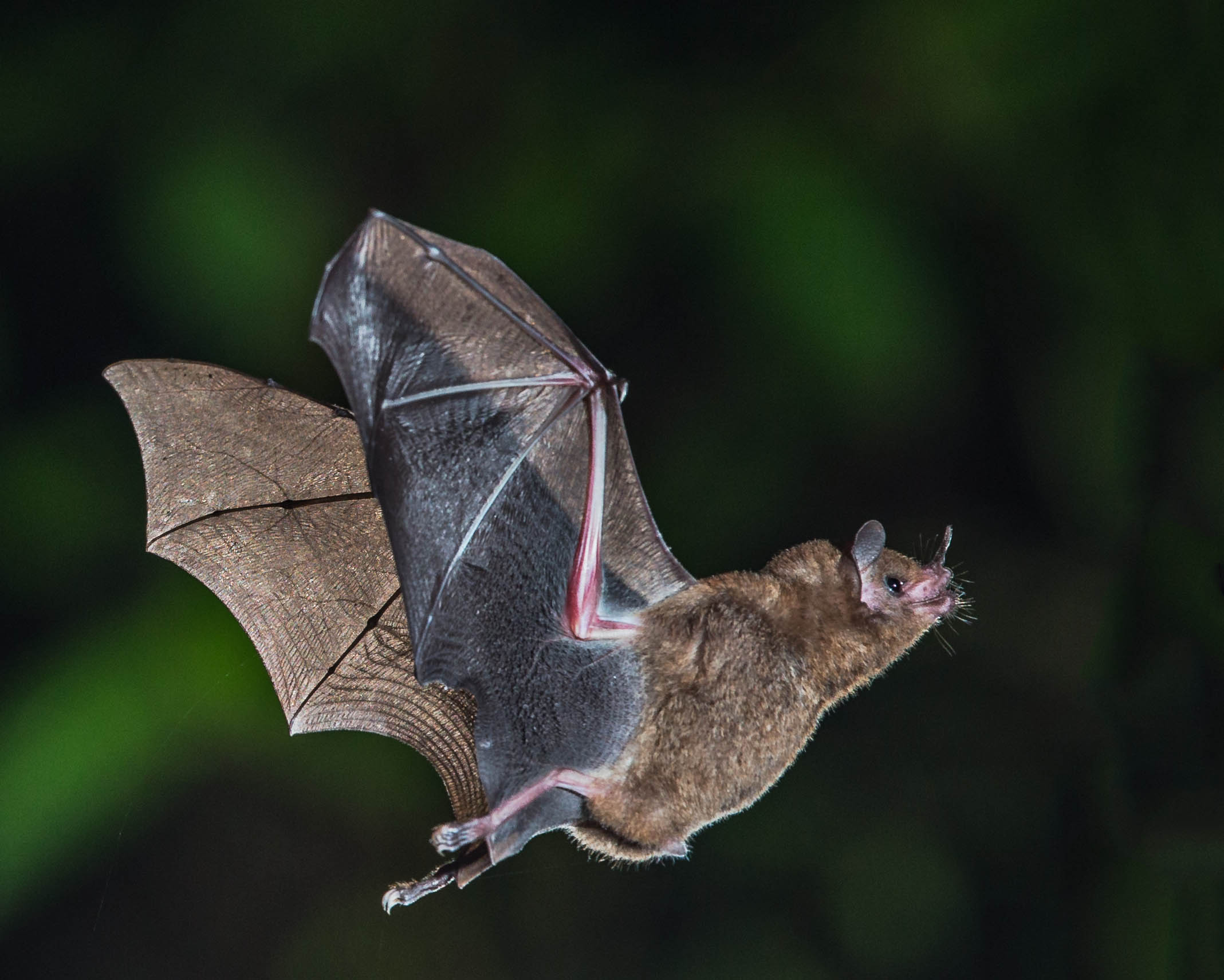 When evening arrived in Costa Rica, the hummingbird feeders were taken over by these bats. There are over 100 species of bats in Costa Rica and the exact species captured here is beyond me, but it is a short-tailed fruit bat!